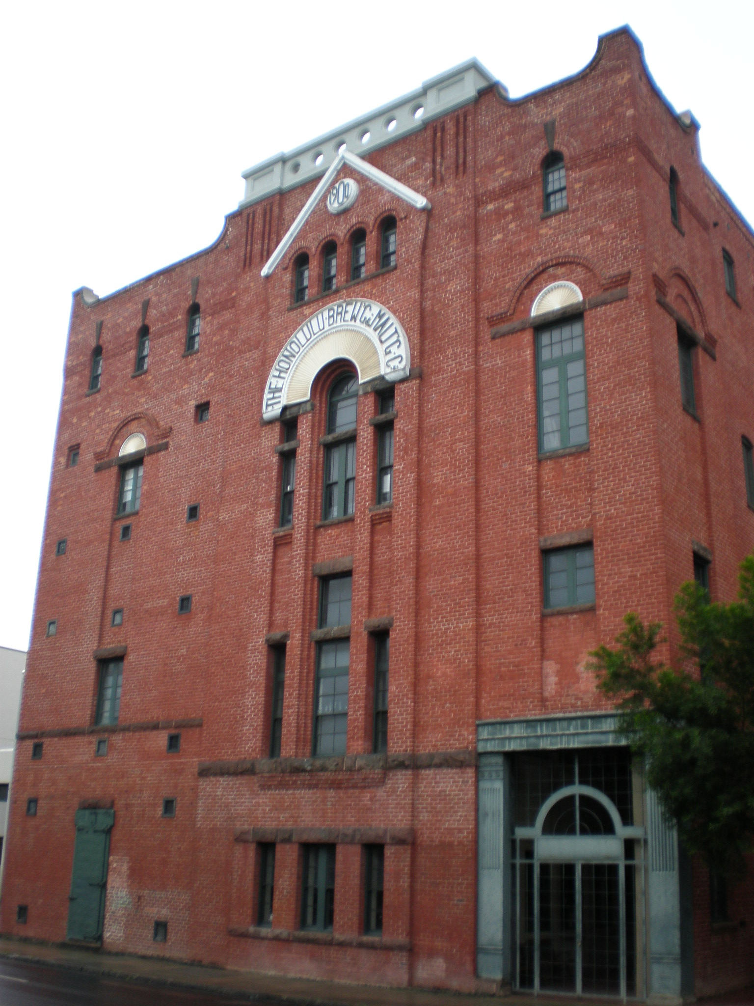 Front oblique view of Old Royal Brewery building, 553 South Queen Street, Honolulu, Hawaii, on National Register of Historic Places, built 1900